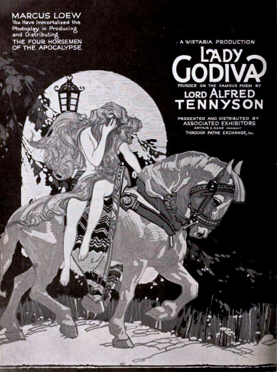 American advertisement for the German drama film Lady Godiva (1921), on page 6 of the March 25, 1922 Exhibitors Herald. The advertisement consists of an illustration and does not contain any stills from the film.